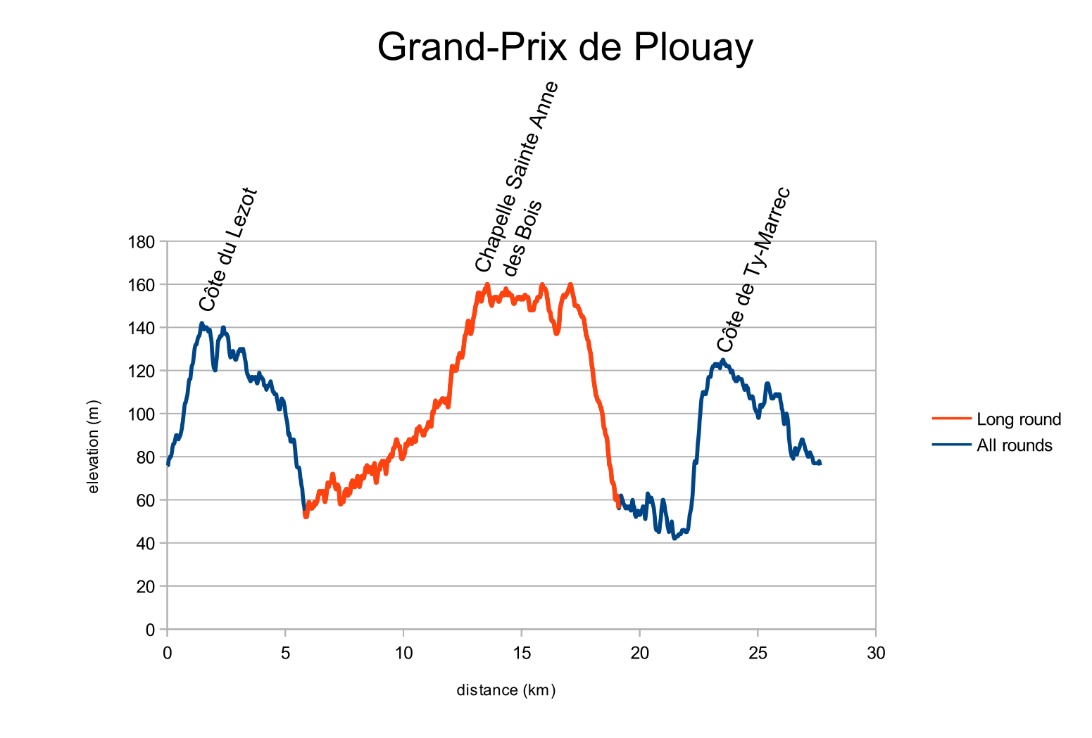 Profile of the circuit 2014 of the GP Plouay